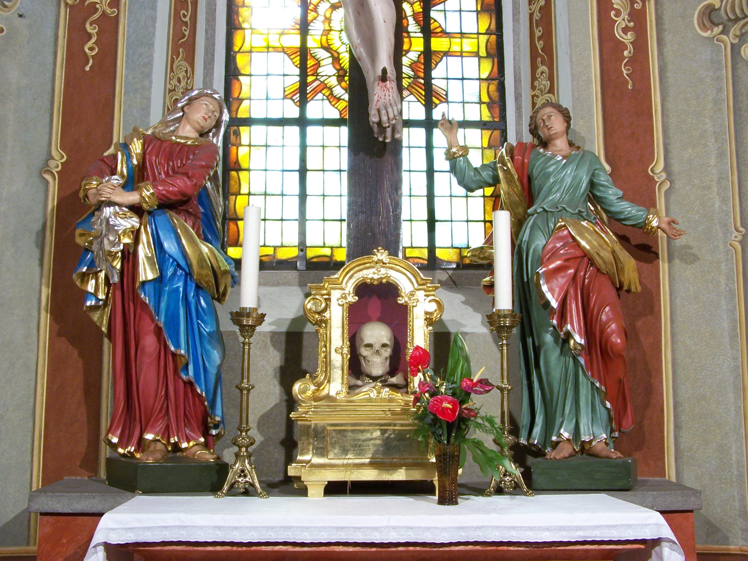 Chapel in church in cistercian abbey of Rudy (Poland).